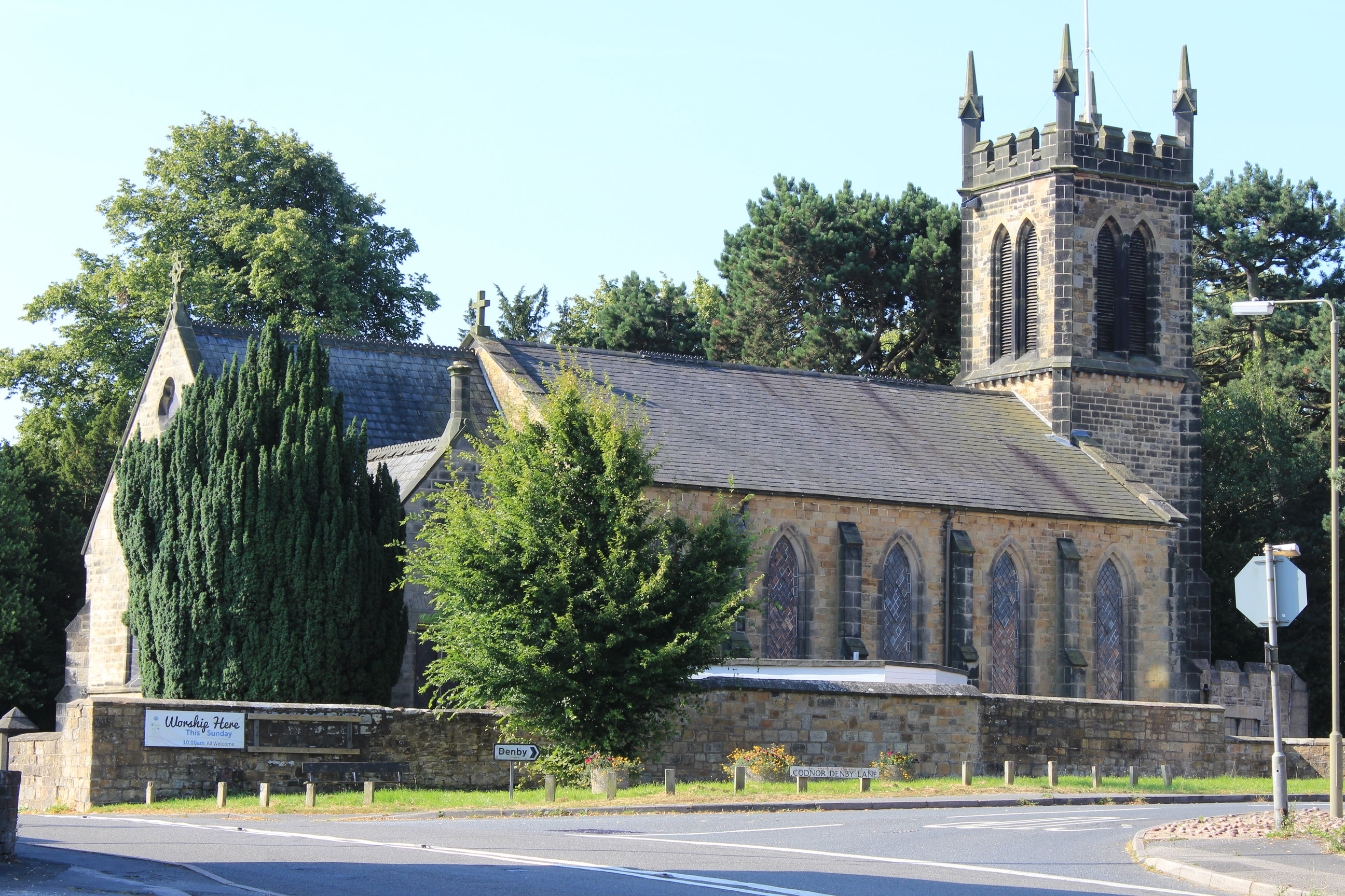 Church of St James at Cross Hill, between Loscoe and Codnor, Derbyshire, England. August 2016.